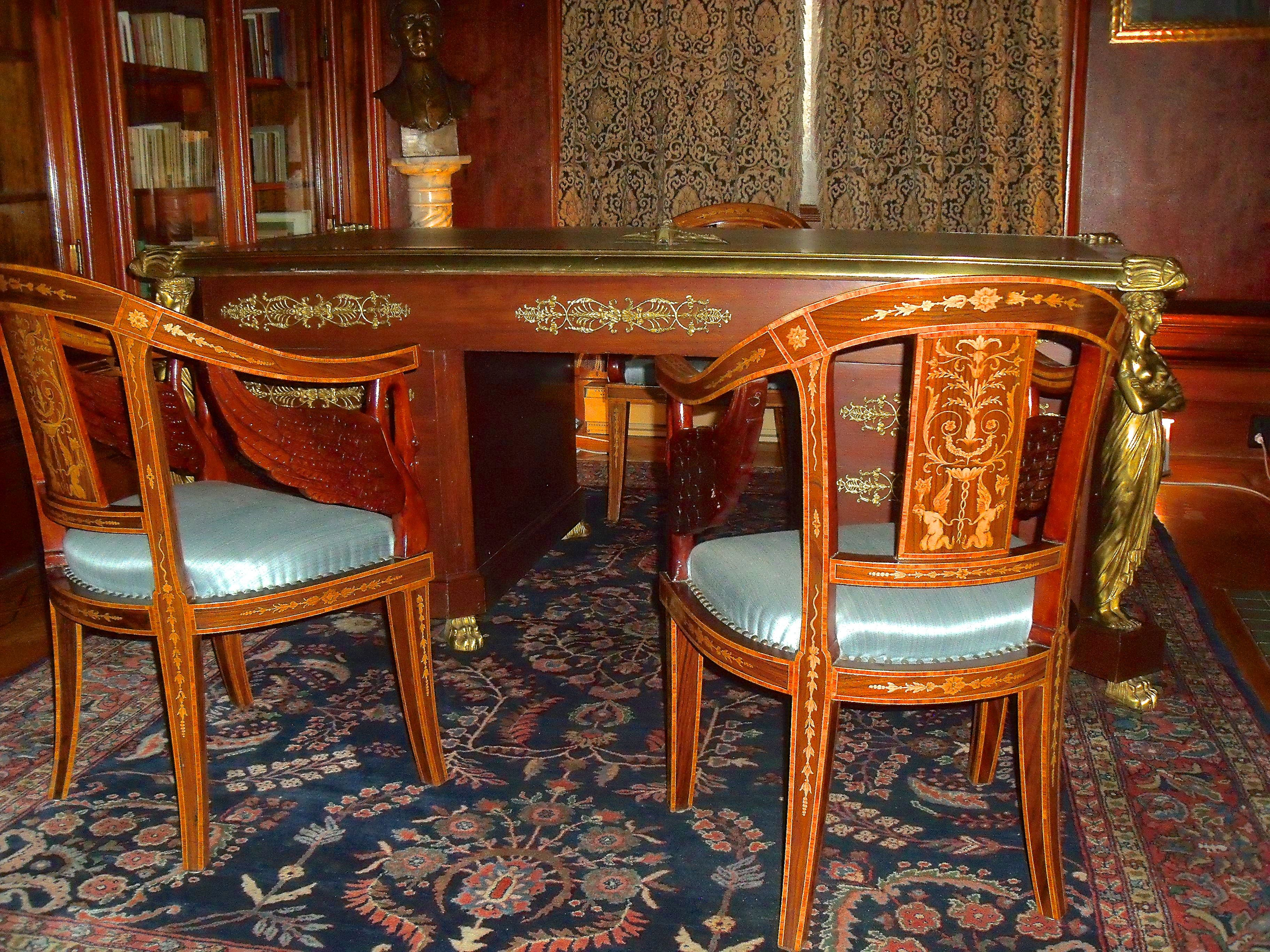 Library, Marius Dufresne House (Château Dufresne), 4040 Sherbrooke Street East, Montreal, Quebec, Canada.